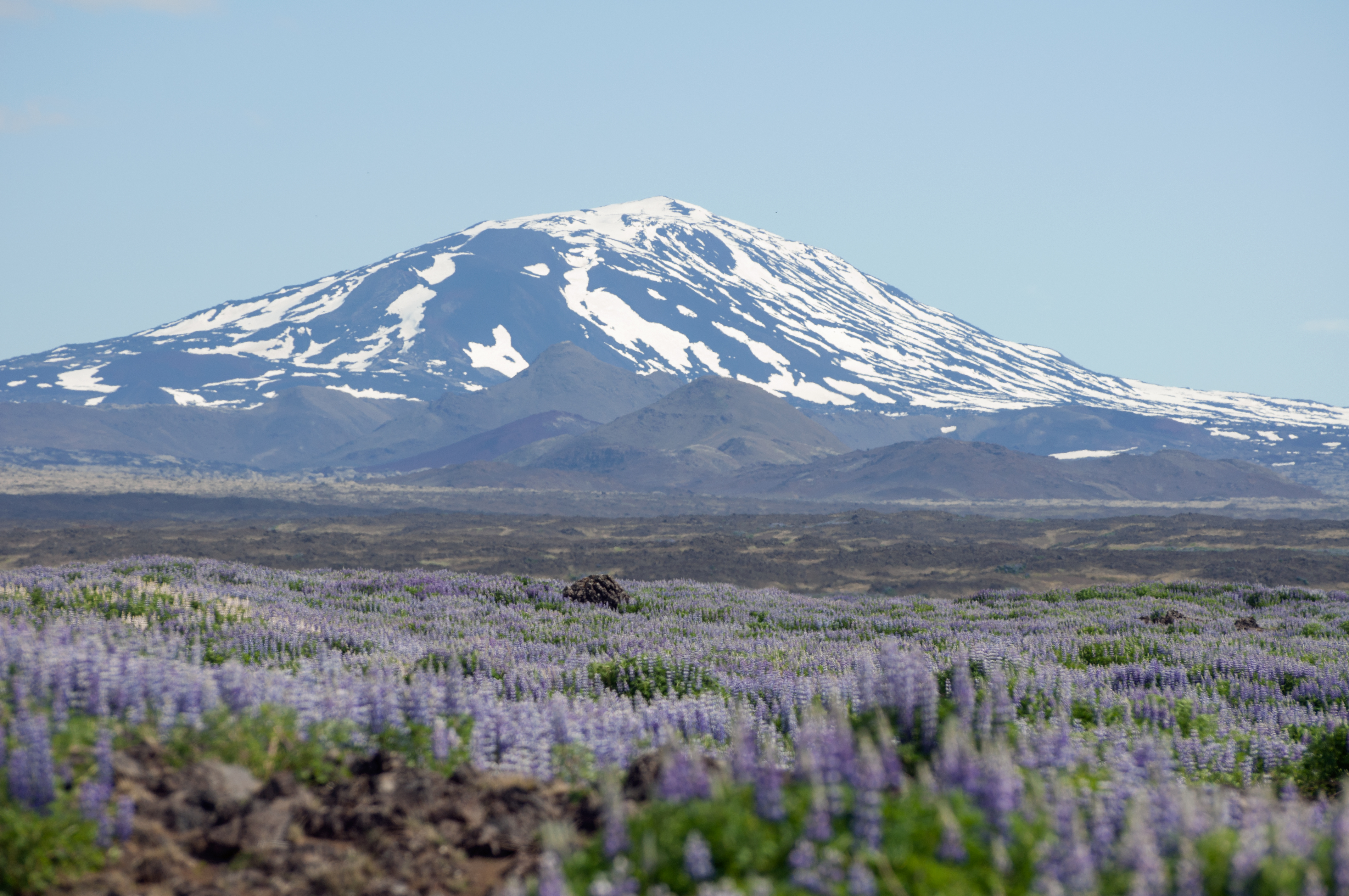 Iceland , Hekla from road F210